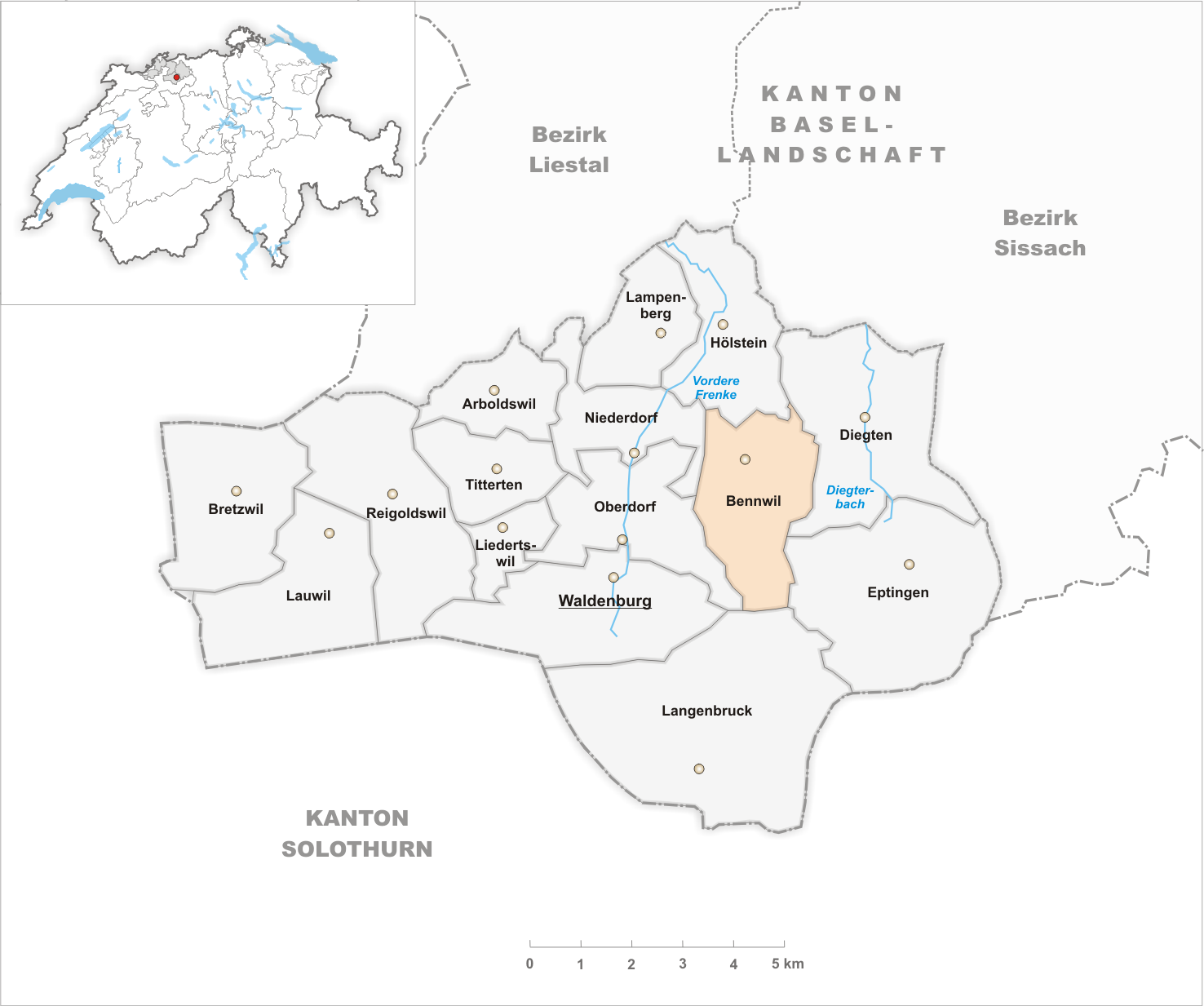 Municipality Bennwil